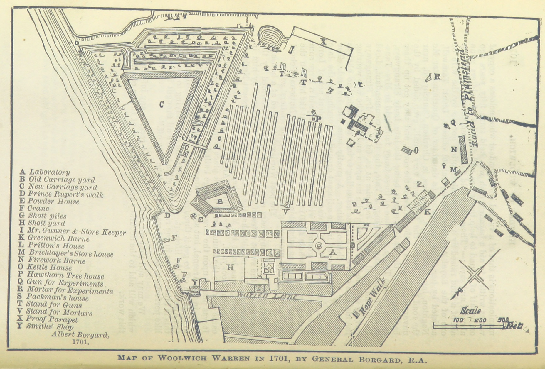 View this map on the BL Georeferencer service. Image taken from: Title: "Woolwich. Guide to the Royal Arsenal. (Reprint of “Warlike Woolwich.”) Tenth thousand" Author: VINCENT, William Thomas. Shelfmark: "British Library HMNTS 10350.bbb.42." Page: 118 Place of Publishing: Woolwich Date of Publishing: 1885 Publisher: A. W. & J. P. Jackson Issuance: monographic Identifier: 003798473 Explore: Find this item in the British Library catalogue, 'Explore'. Open the page in the British Library's itemViewer (page image 118) Download the PDF for this book Image found on book scan 118 (NB not a pagenumber)Download the OCR-derived text for this volume: (plain text) or (json) Click here to see all the illustrations in this book and click here to browse other illustrations published in books in the same year. Order a higher quality version from here.